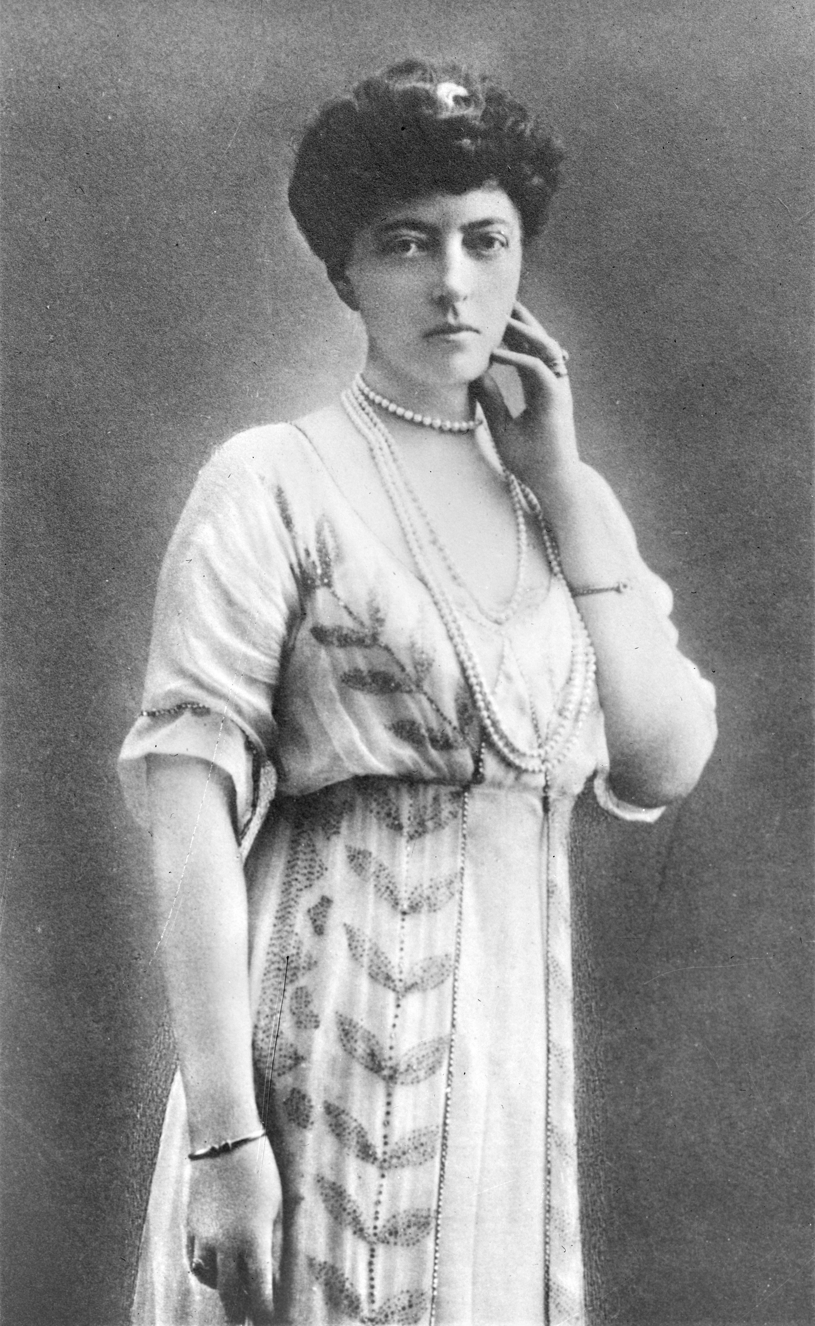 Grand Duchess Anastasia Mikhailovna of Russia